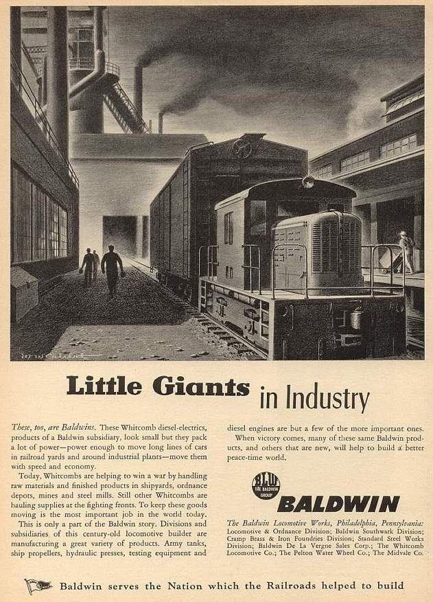 A World War II-era print advertisement for Baldwin (Whitcomb) Locomotives, "Little Giants."